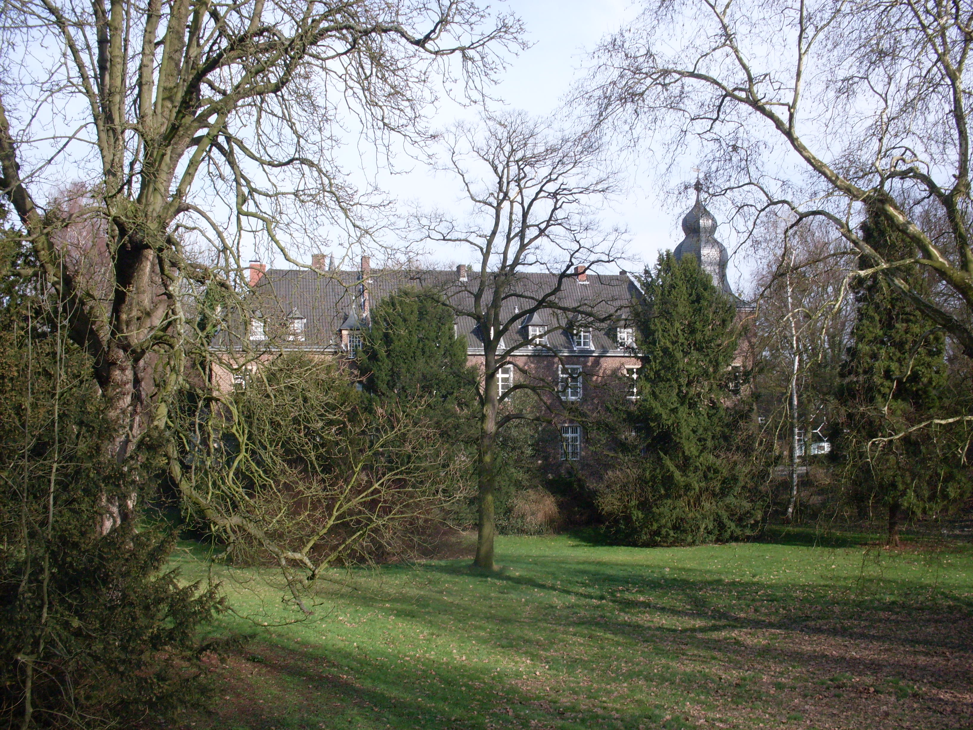 Duesseldorf-Holthausen, Elbroich Castle